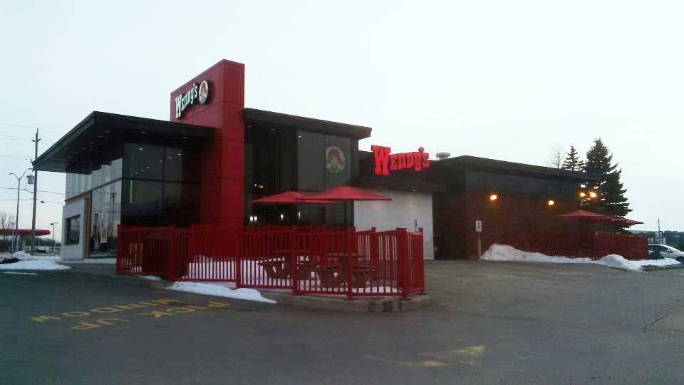 A modern Wendy's restaurant in Kingston, Ontario that displays the classic logos, built just before the modern logo was introduced.